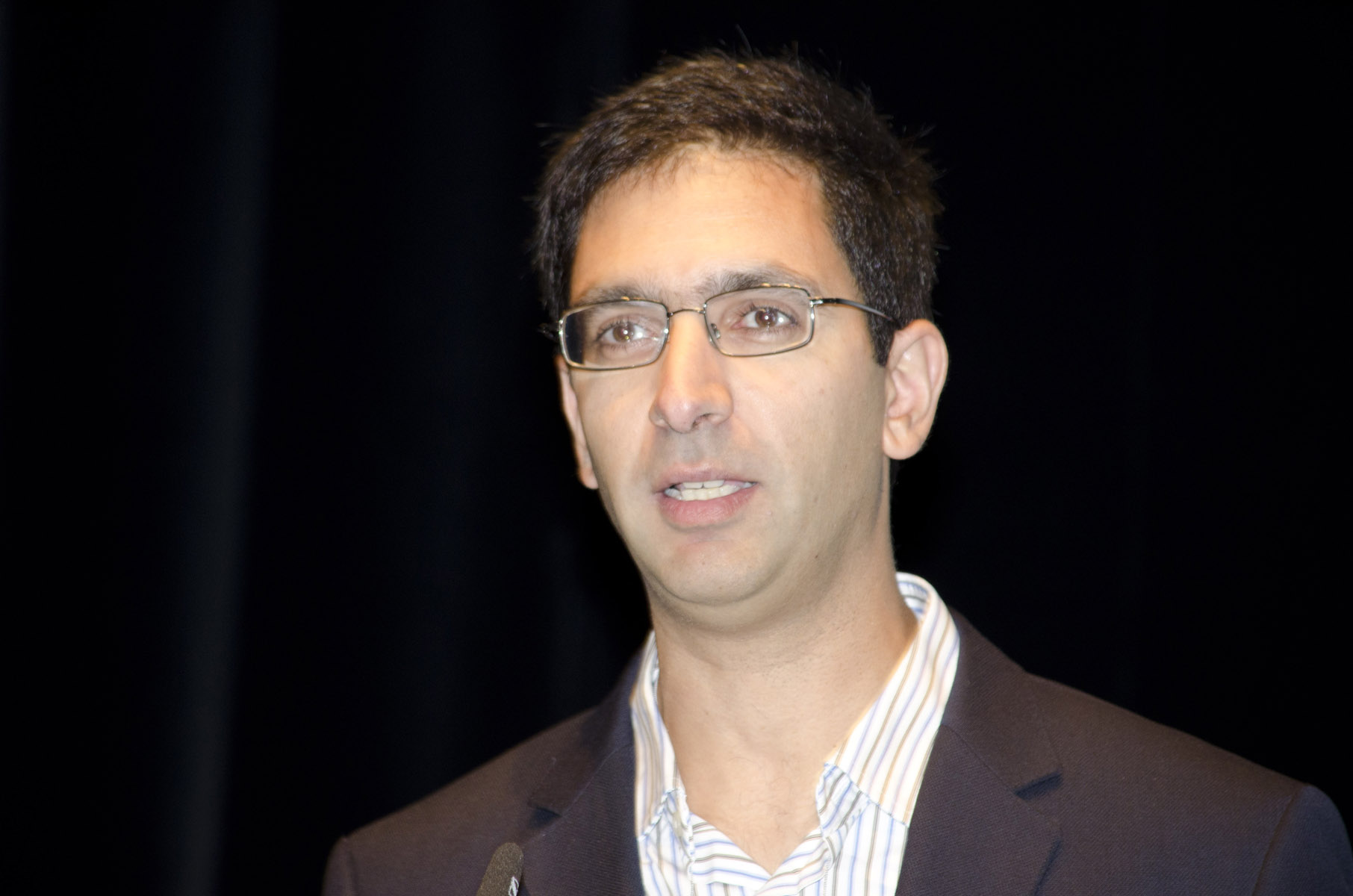 Lior Pachter at the ISMB conference in Berlin, 2013